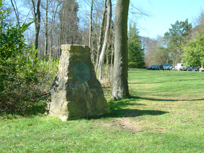 Wendover Woods near the summit of Haddington Hill Photograph by Stephen Dawson, 4 April 2003.